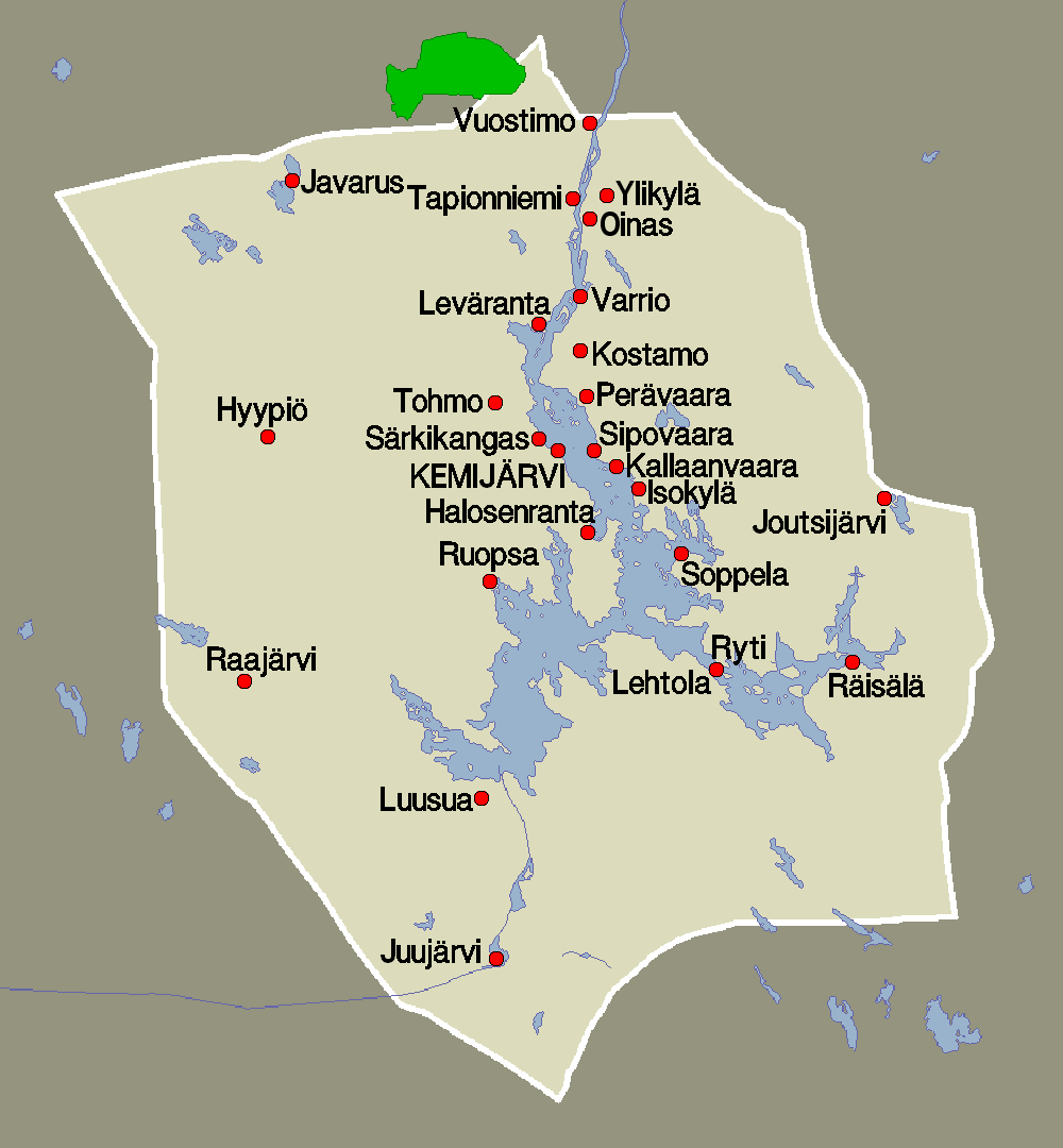 Map of Kemijärvi, Finland in Basque